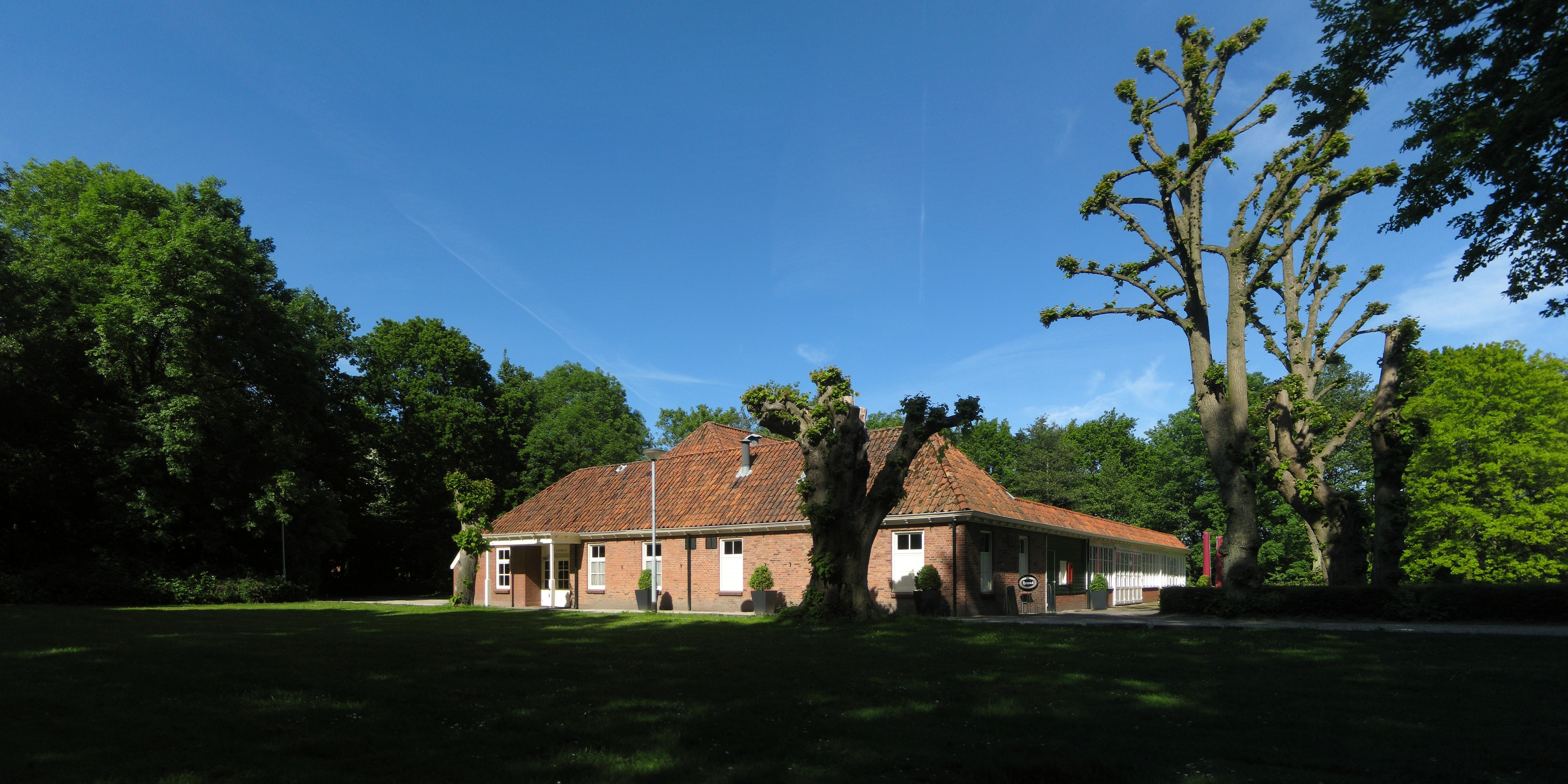 De Coendersborg, a former farm in the Dutch city of Groningen.